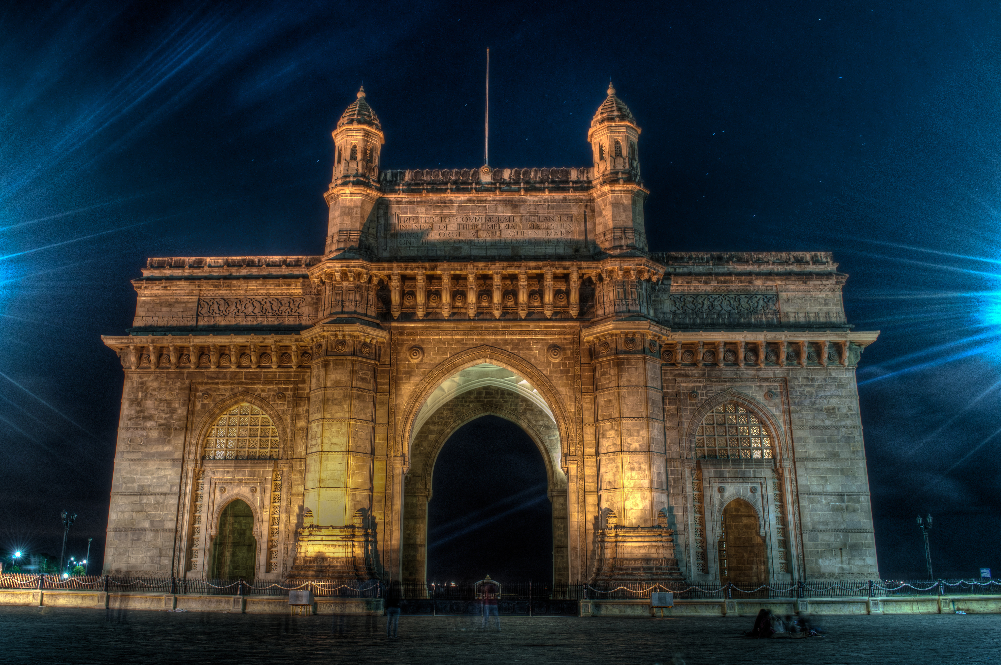 Gateway of India as seen on a full moon light in a long exposure shot.